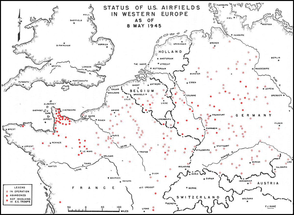 Status of U.S. Airfields in Western Europe as of 8 May 1945